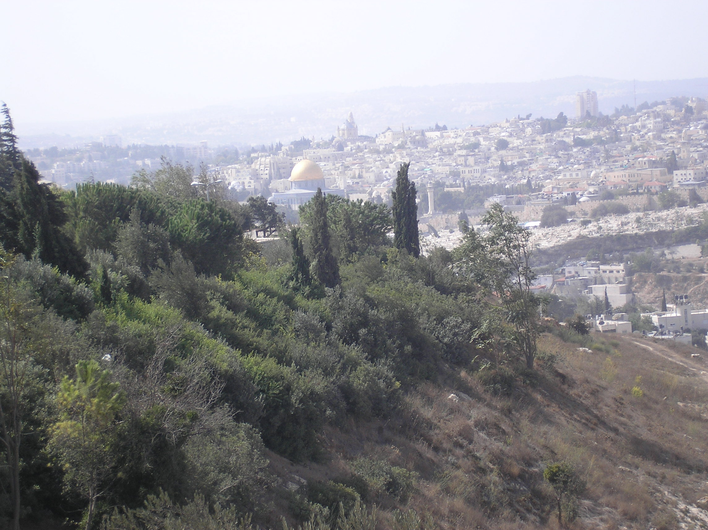 View from Mount Scopus to the Old city